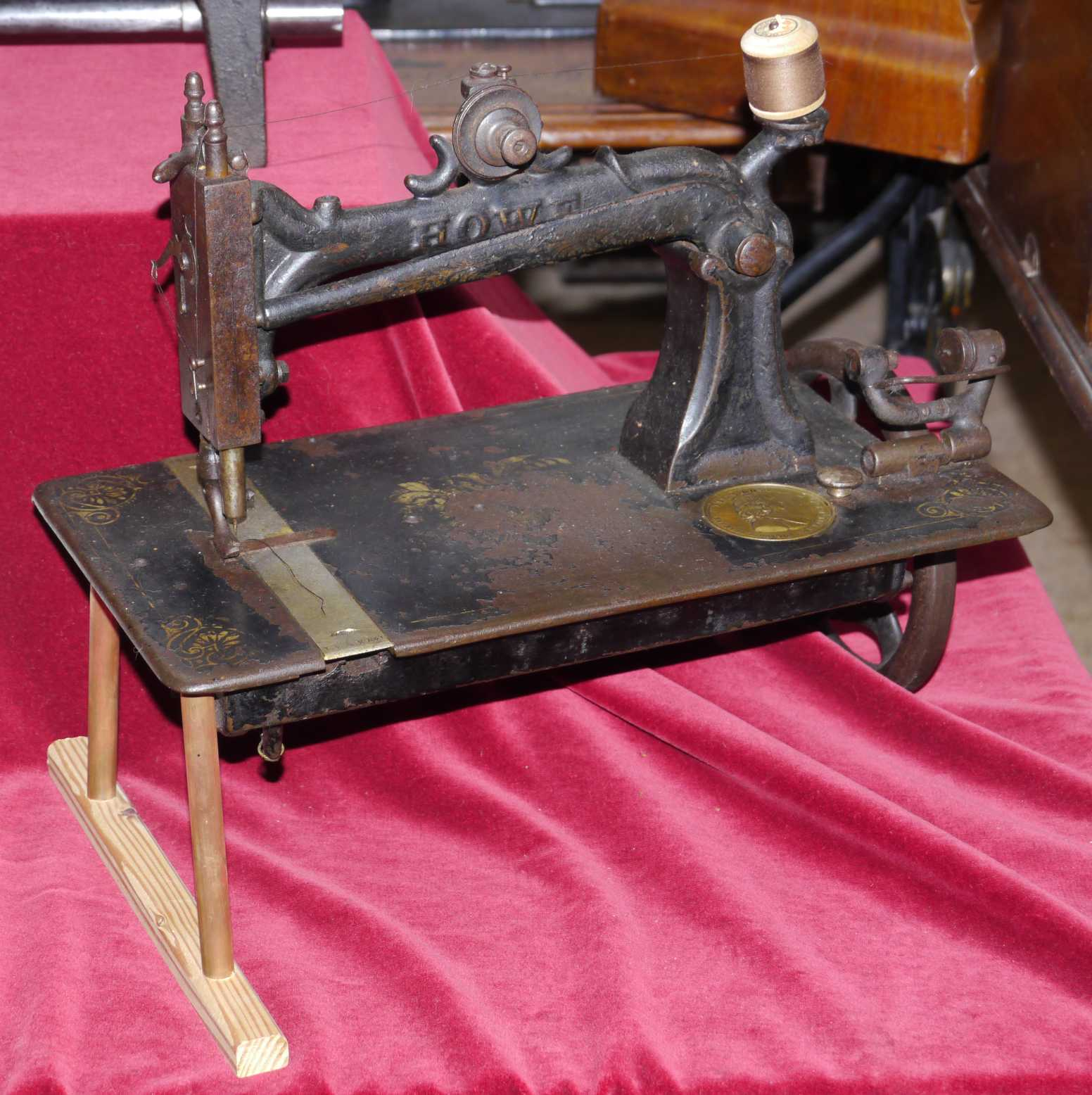 Sewing machine of Elias Howe Sewing Machine Museum Sommerfeld /Kremmen